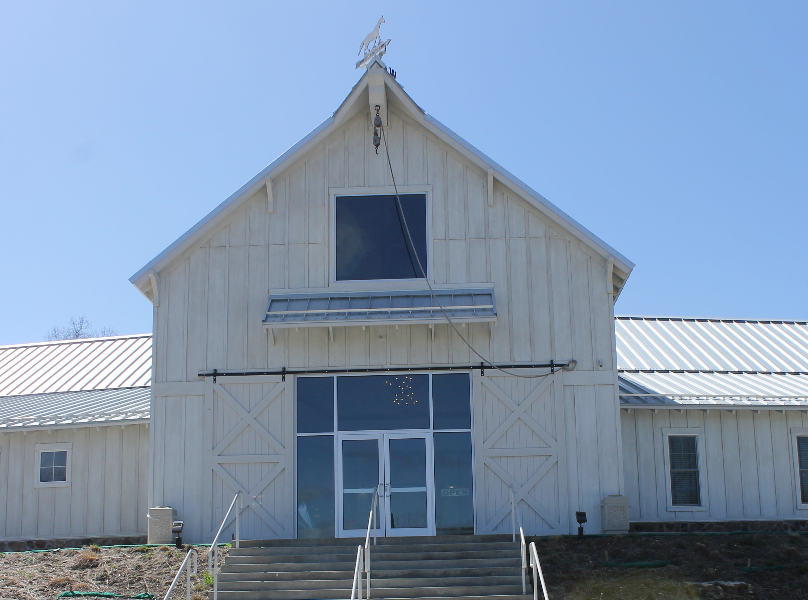 Revised museum dedicated to Laura Ingalls and Almanzo Wilder, near Mansfield, MO